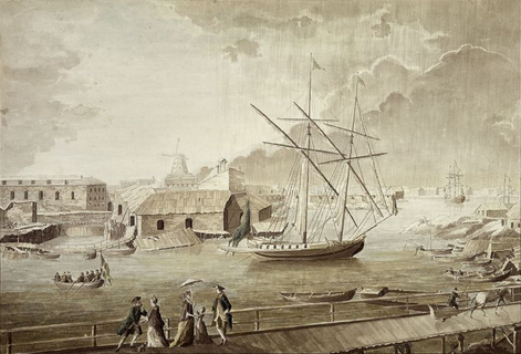 Painting of a pojama in Artilleriviken (Tykistölahti) at Sveaborg in Finland by Adolf Geete, 1760.